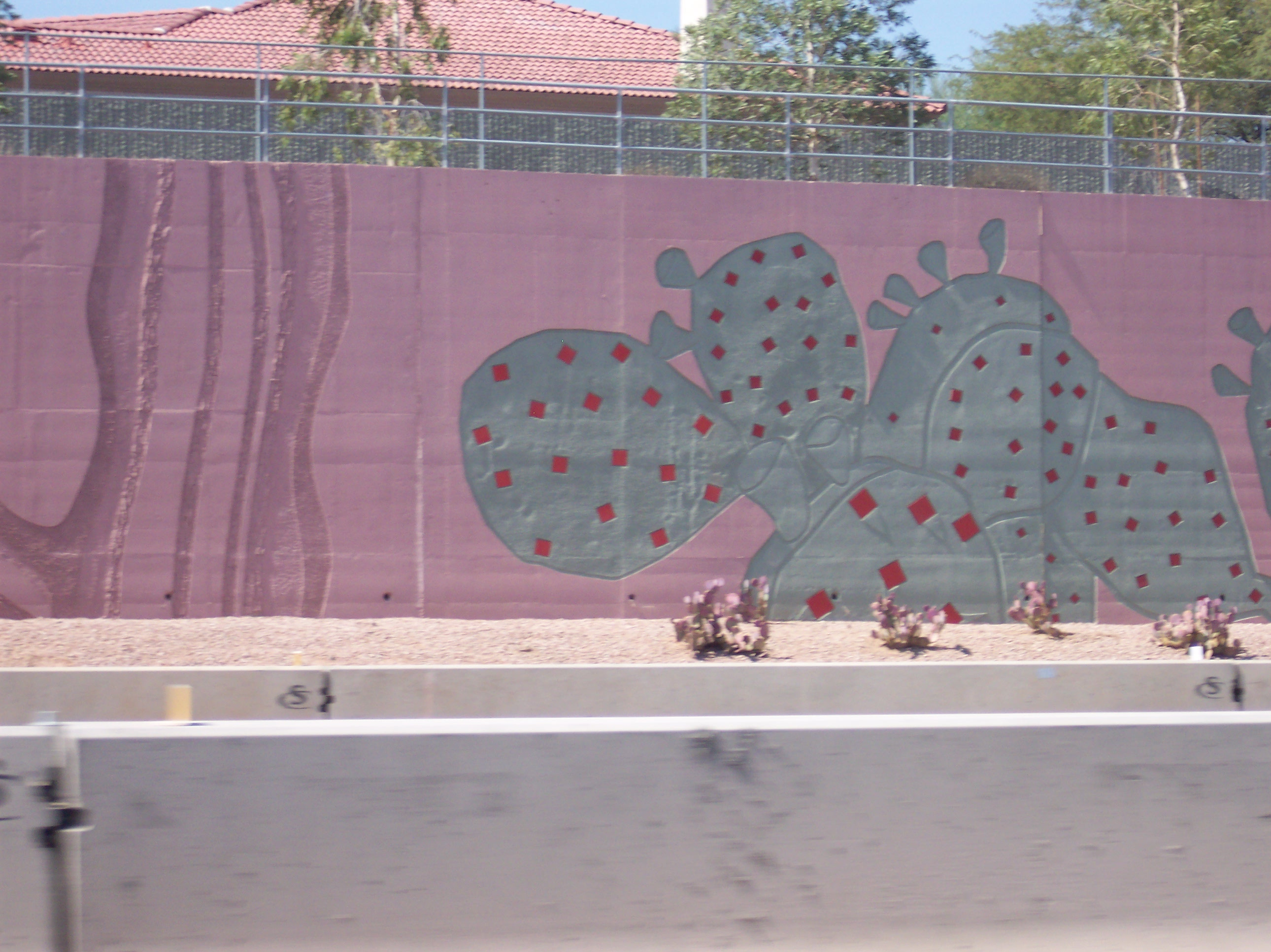 40-foot cacti decorate a sound/retaining wall in Scottsdale, AZ. Created with Scott System form liner.